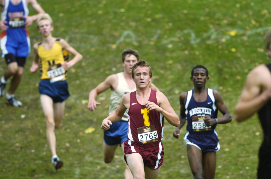 Roy Griak Invitational Boy's High School race, Les Bolstad Golf Course, University of Minnesota, Falcon Heights, Minnesota